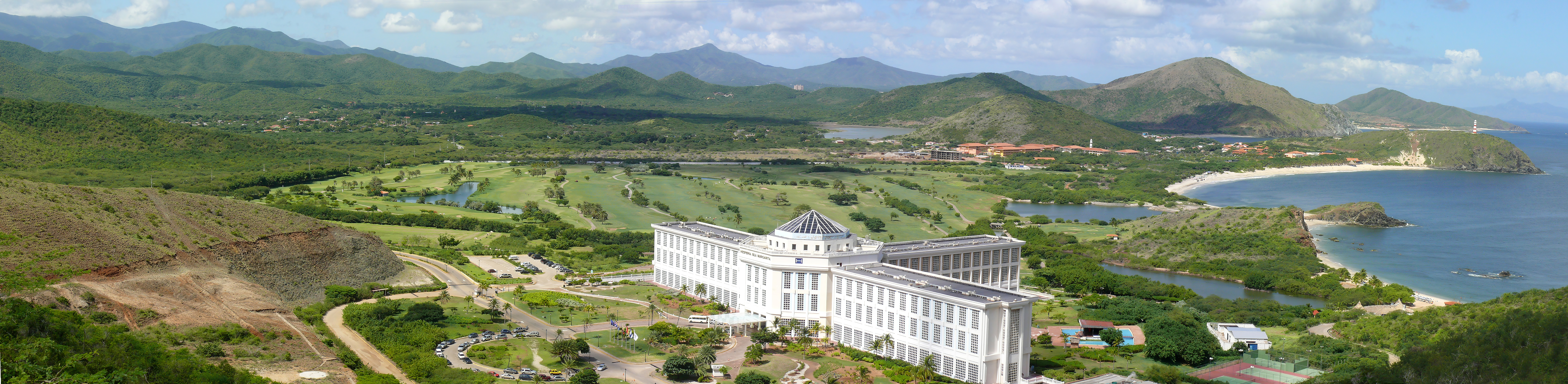 Isla Bonita Resort. Margarita Island, Venezuela.